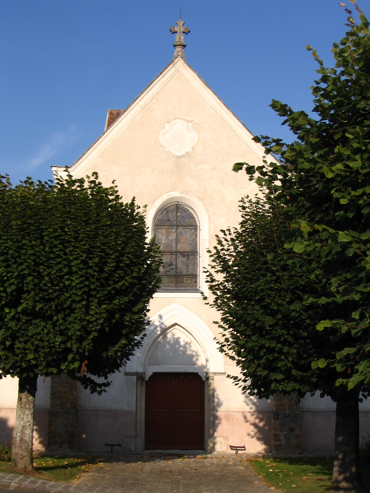 The church of Gouvernes, Seine-et-Marne, France.